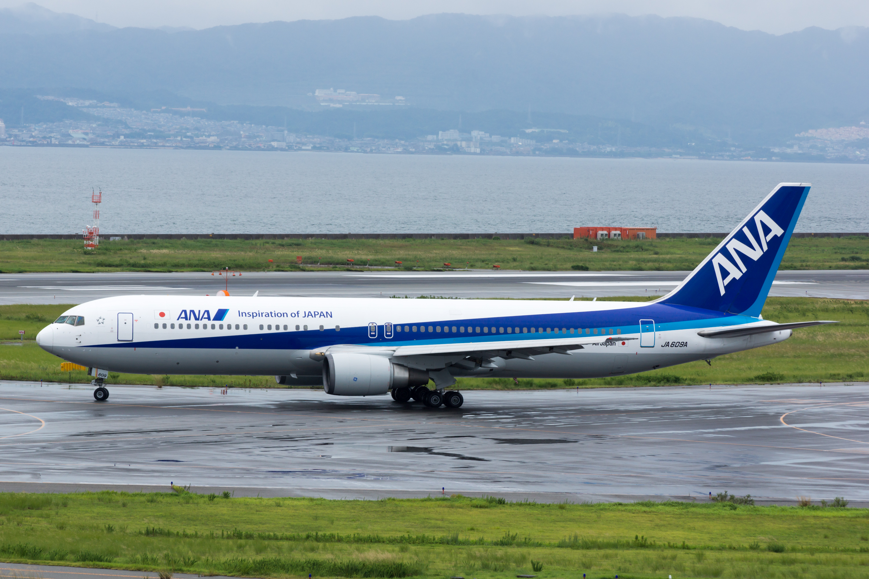 All Nippon Airways / 全日空 Boeing 767-381(ER) JA610A NH977, Departed to Qingdao Osaka Kansai Int'l Airport